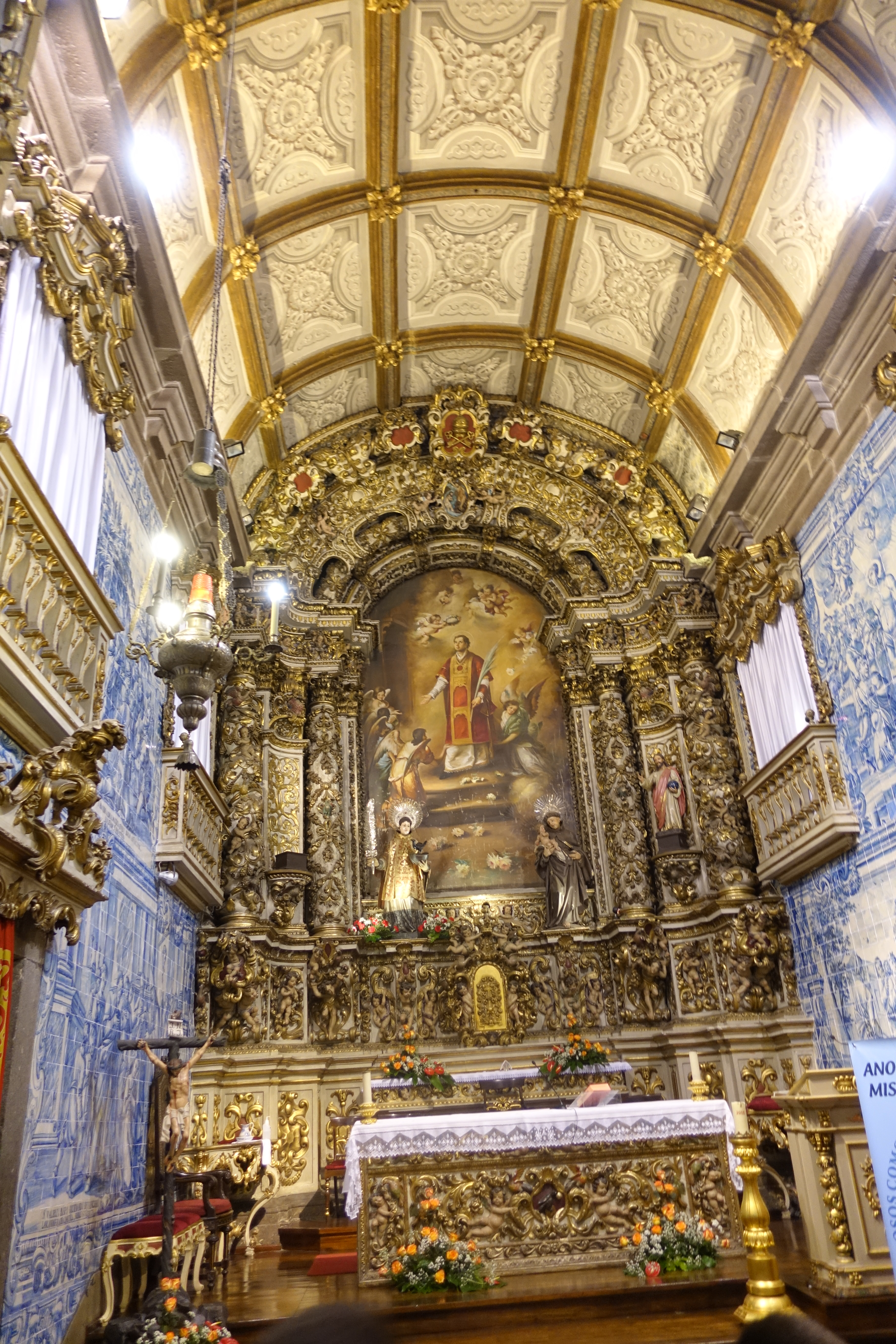 Interior of Church of São Vicente, Braga, Portugal.